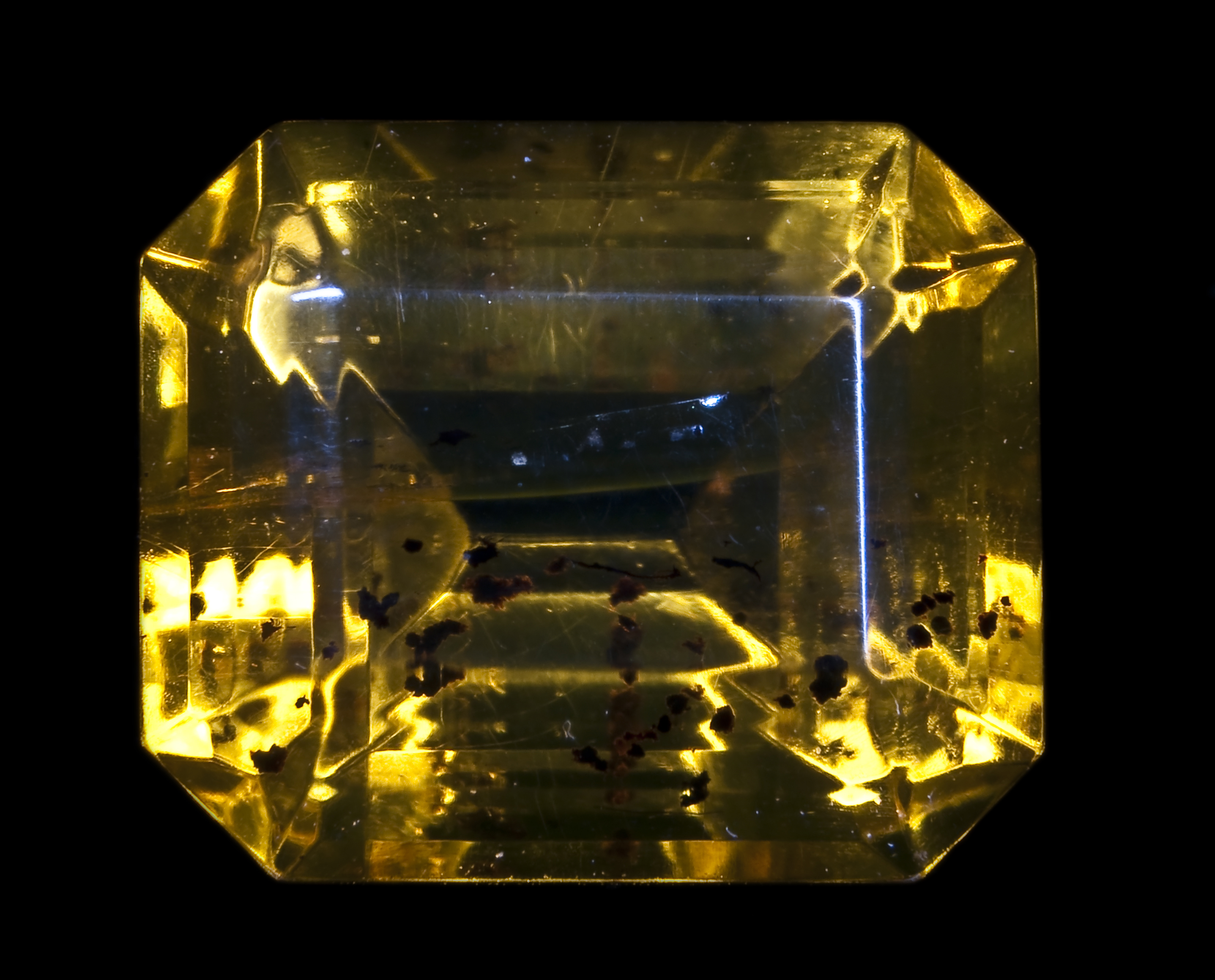 Mellite cut Locality : Csordakúti Mine, Bicske-Csordakút, Bicske-Zsámbéki Basin, Fejér Co., Hungary Size : 9.8x8.2mm